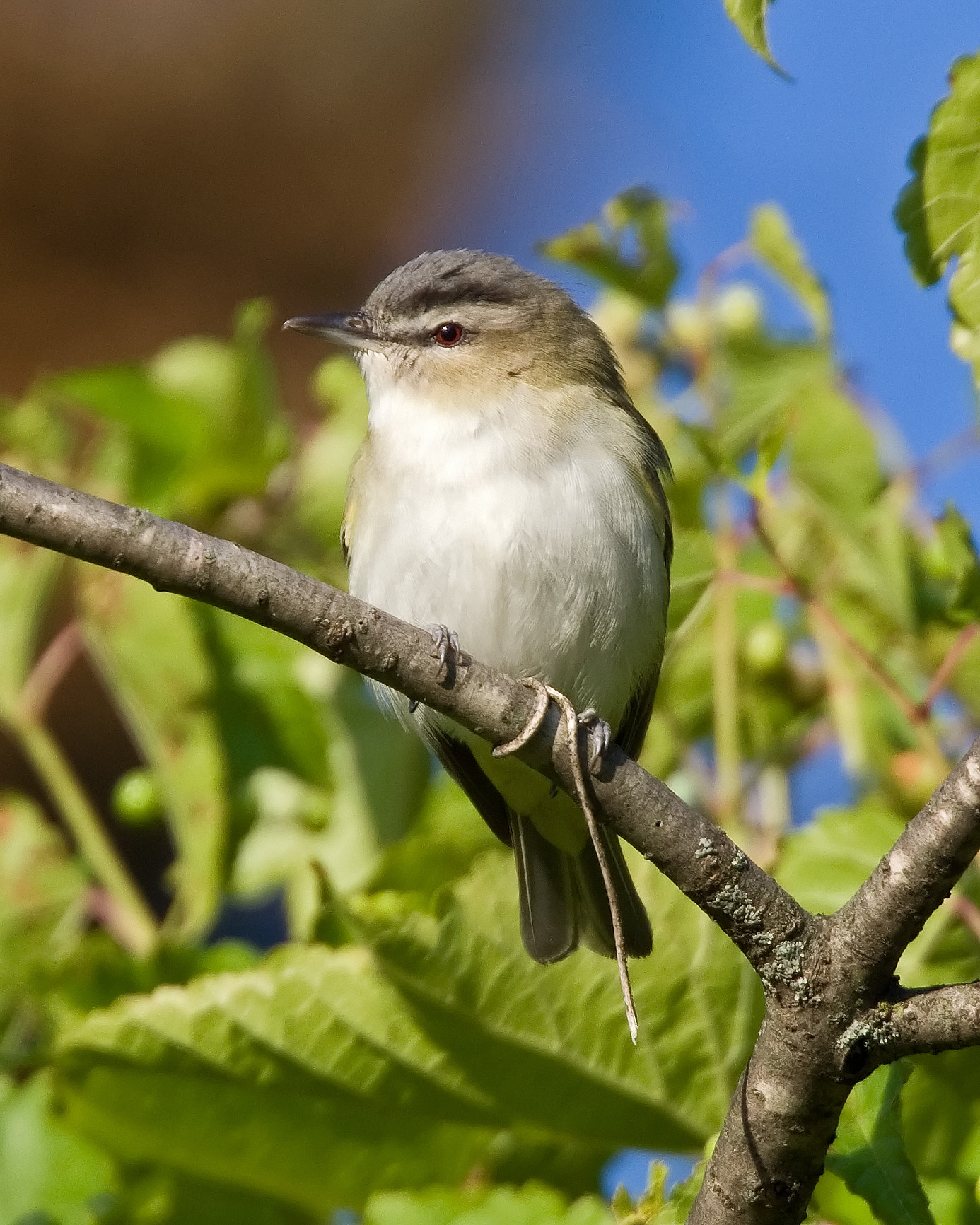 Red-eyed Vireo in Owen Park, Madison, Wisconsin, USA.